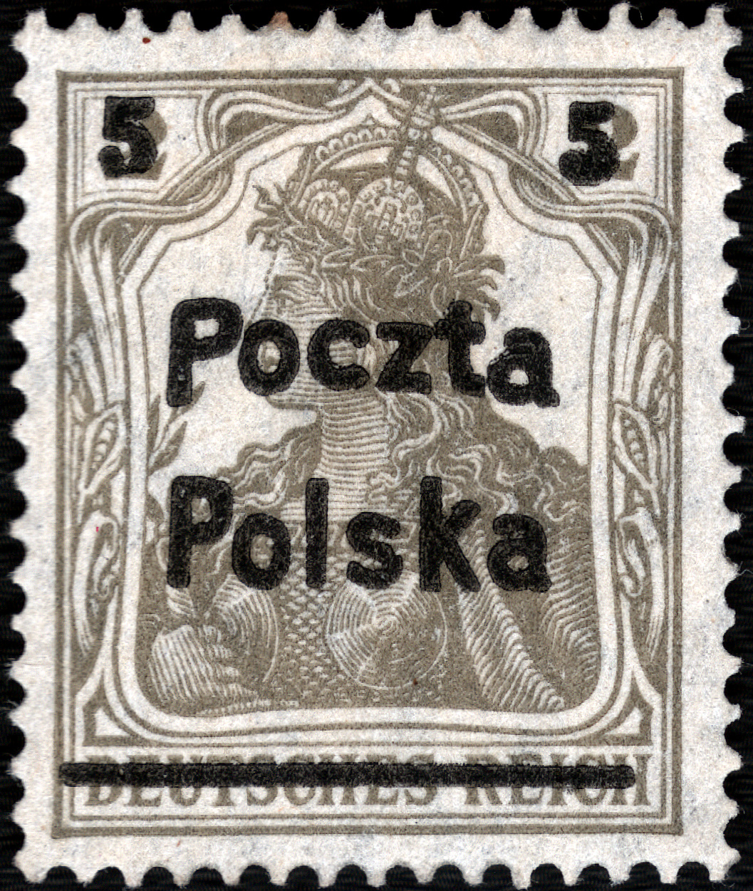 Polish overprint on German 2Pf Germania